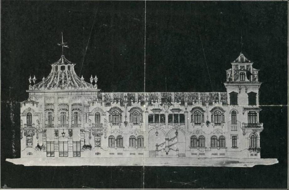 1915 project for the Orfeon Povoense music hall